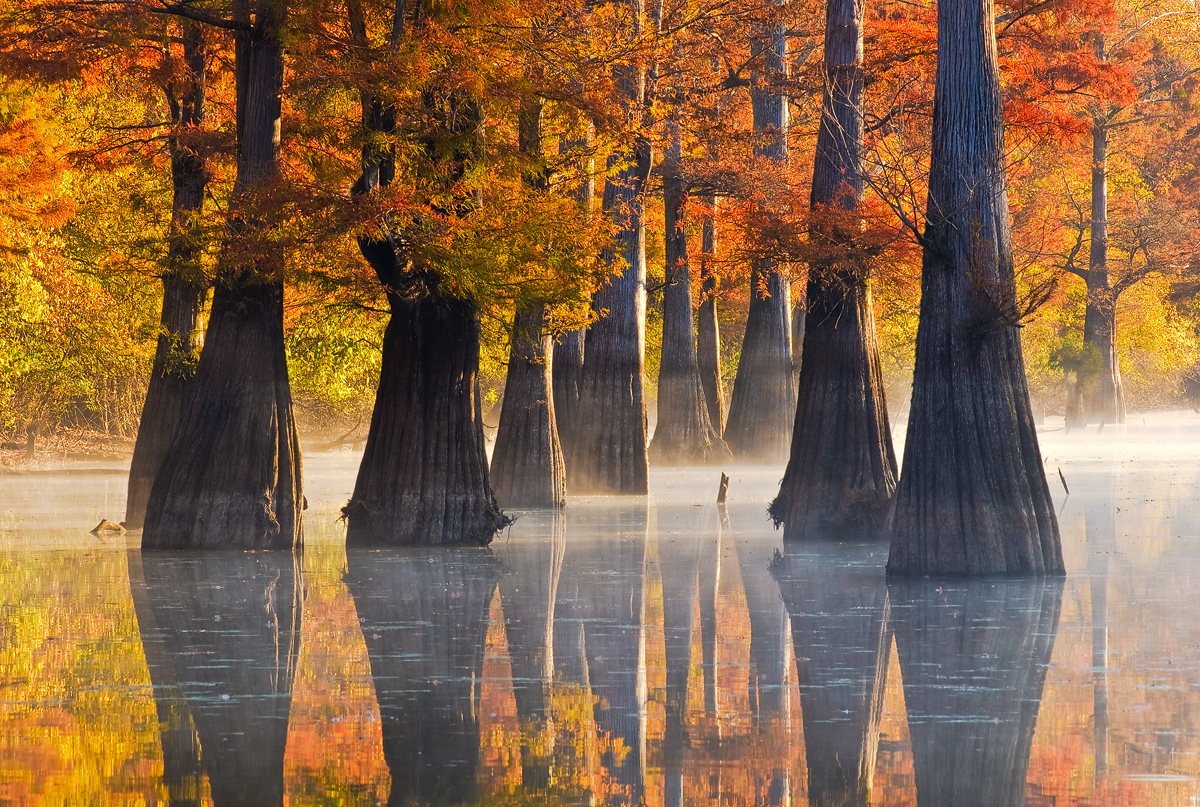 Baldcypress Taxodium distichum trees on the White River in Arkansas